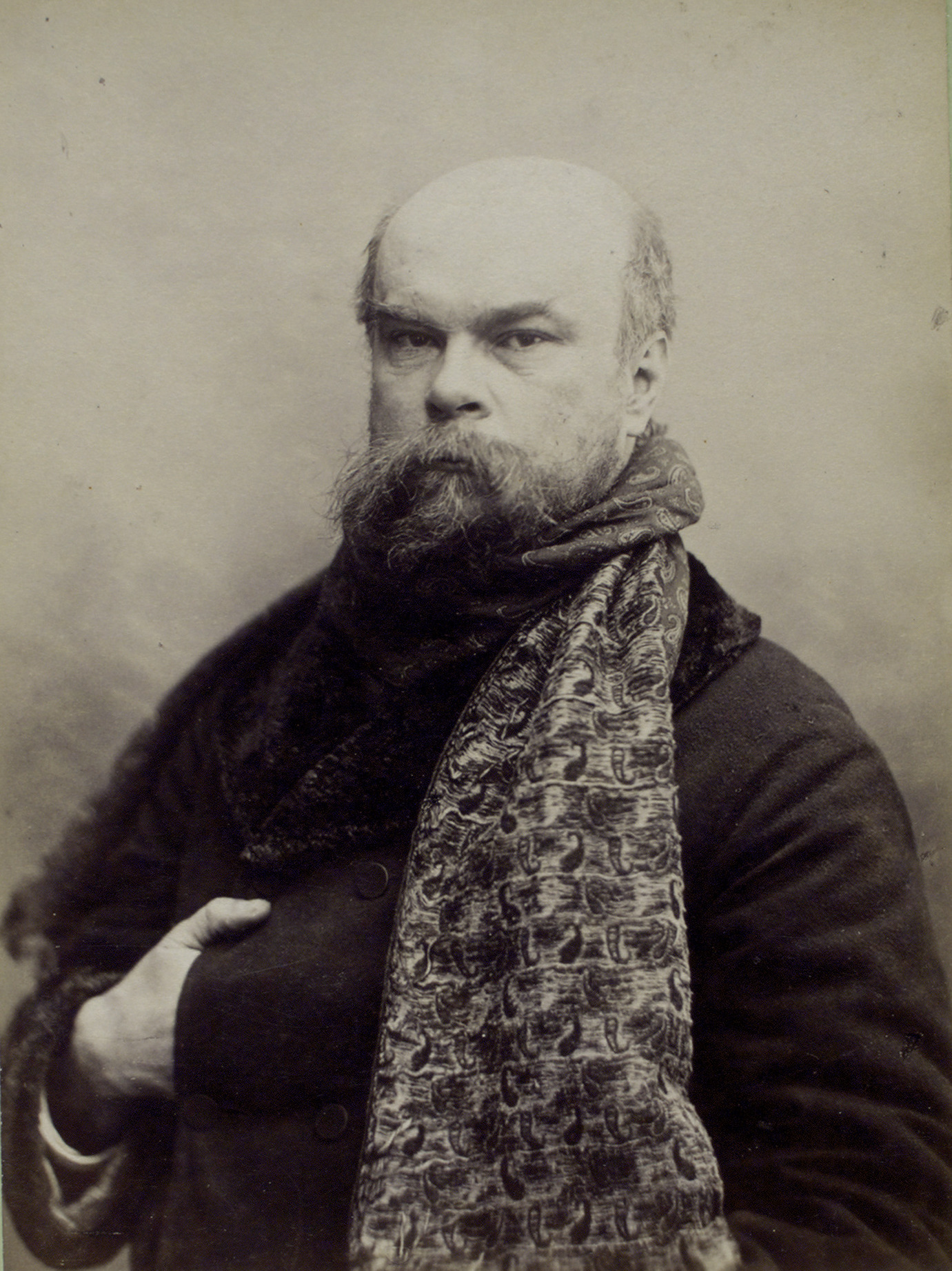 Paul Verlaine wearing a Charvet scarf: Cabinet Card Portraits in the Collection of Radical Publisher Benjamin R. Tucker Collection